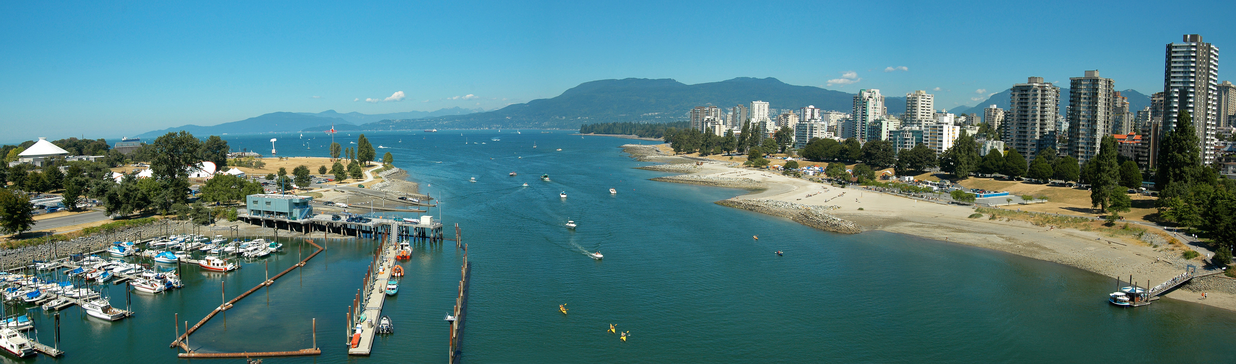 A view from Burrard Bridge to English Bay in the city of Vancouver, British Columbia, Canada.